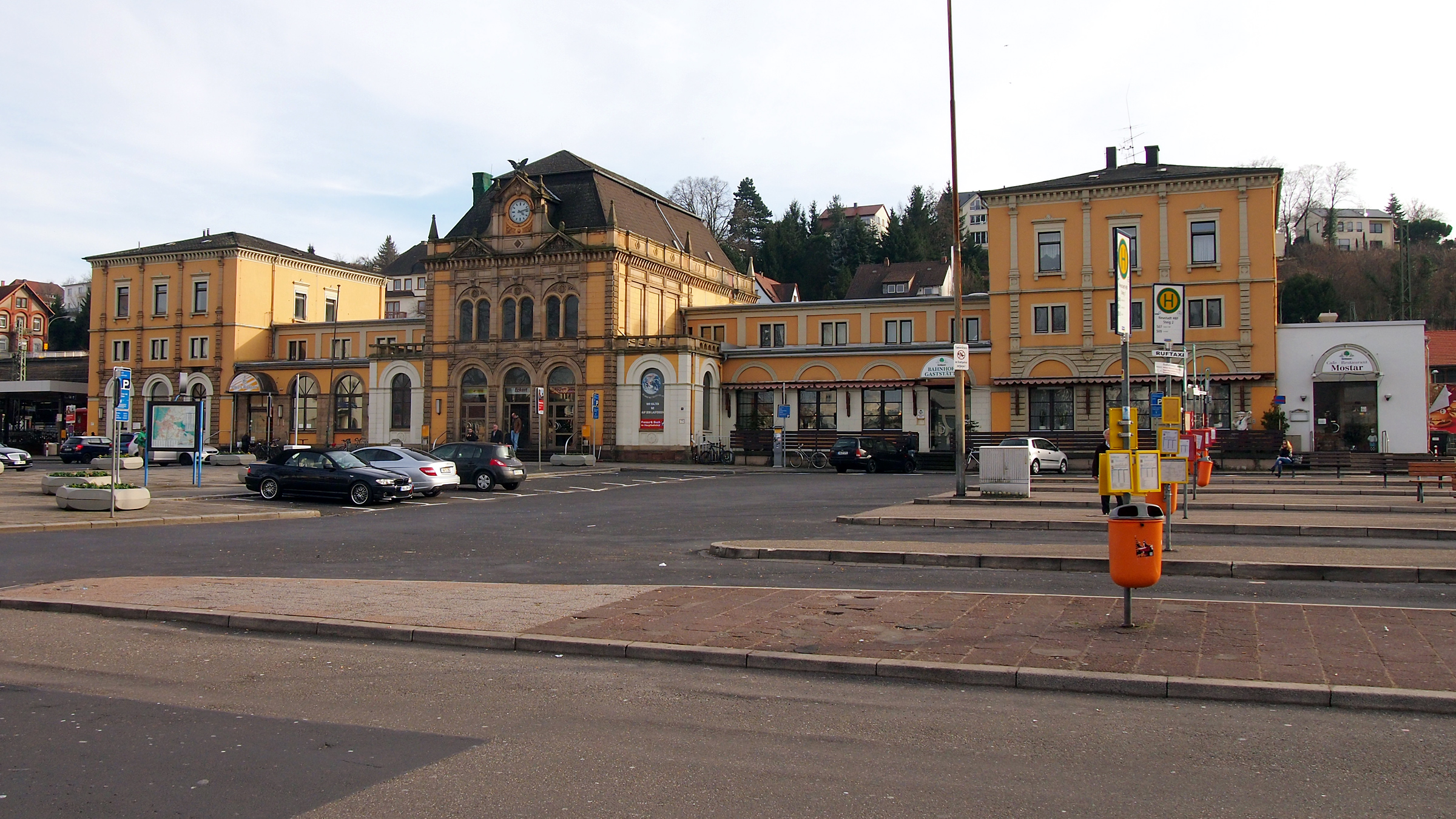 Neustadt an der Weinstraße, Hauptbahnhof, railway station